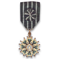 The image of L'Ordre des Arts et des Lettres, Officier.